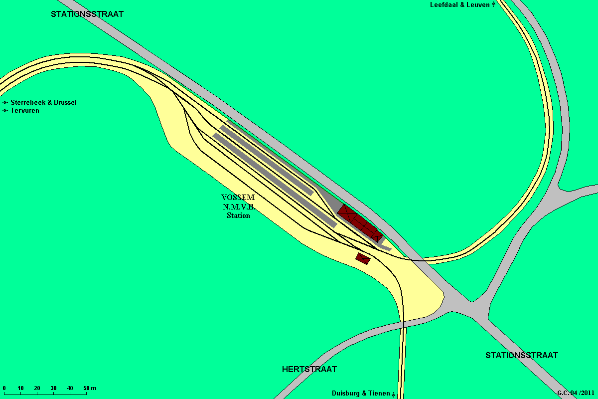 Key words: SNCV, rail, vicinal railways, tram, train, metre gauge, infrastructure, tracks, station, Vossem, Belgium